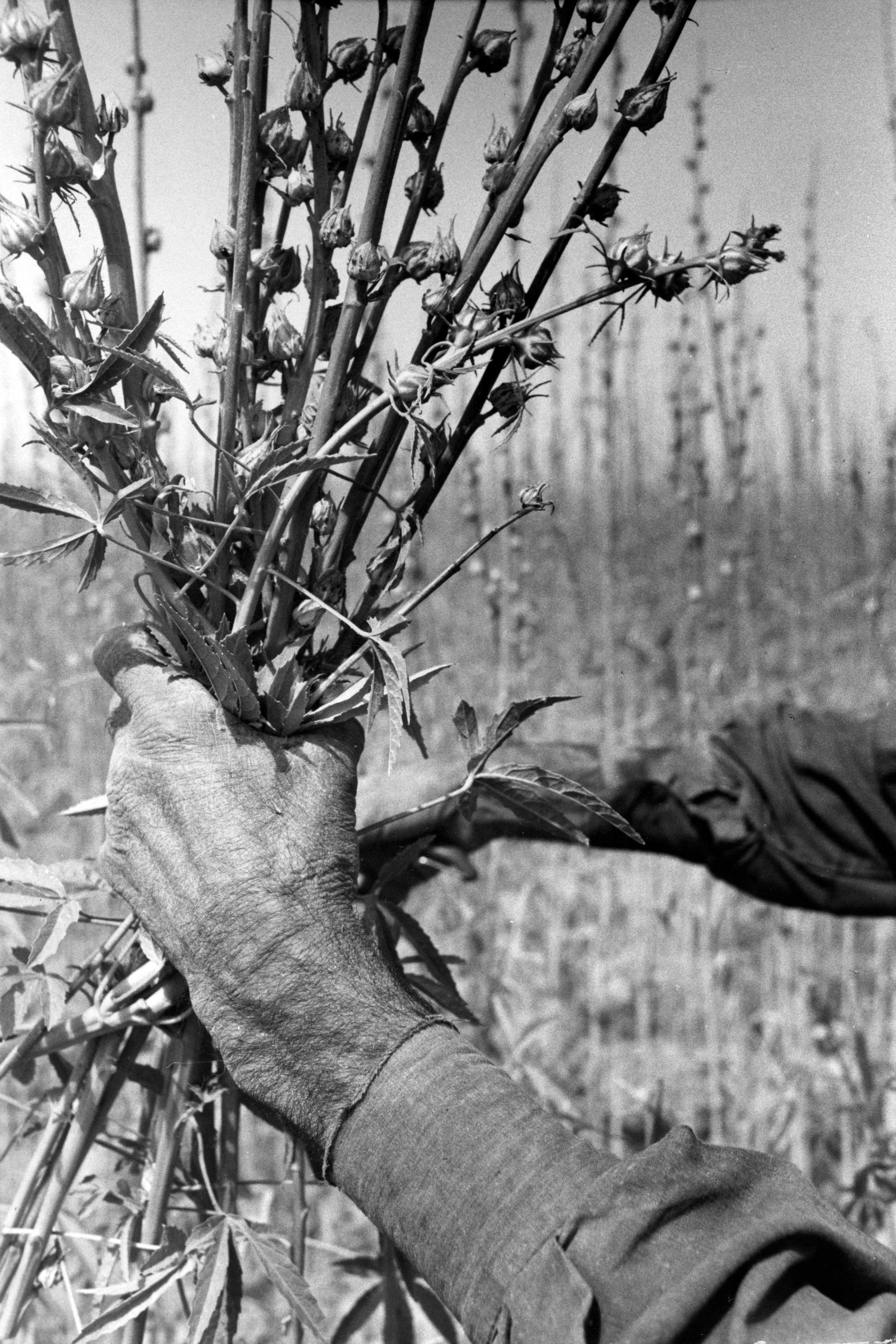 Harvesting Kenaf plant in Iran in 1967.